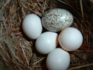 A Brown-headed Cowbird (Molothrus ater) egg in an Eastern Phoebe (Sayornis phoebe) nest.